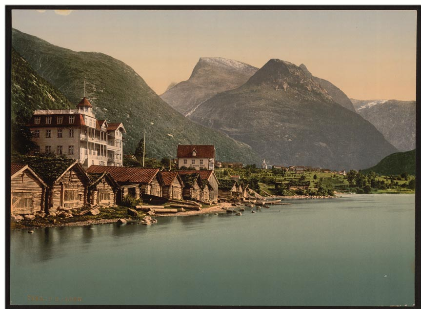 Loen in Nordfjord, Norway with Hotel Alexandra